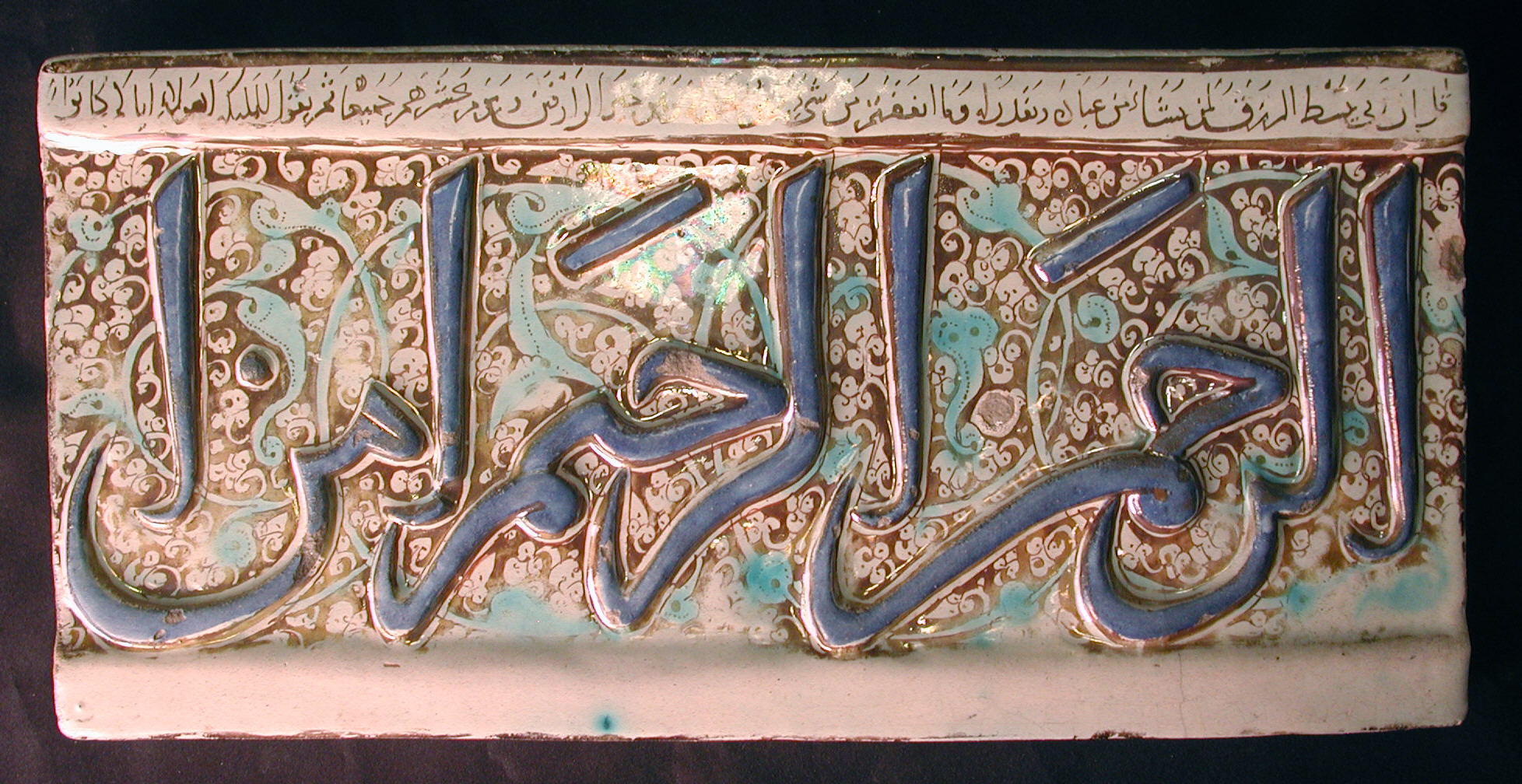 Tile from a frieze; Ceramics-Tiles